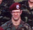 Author:bones357